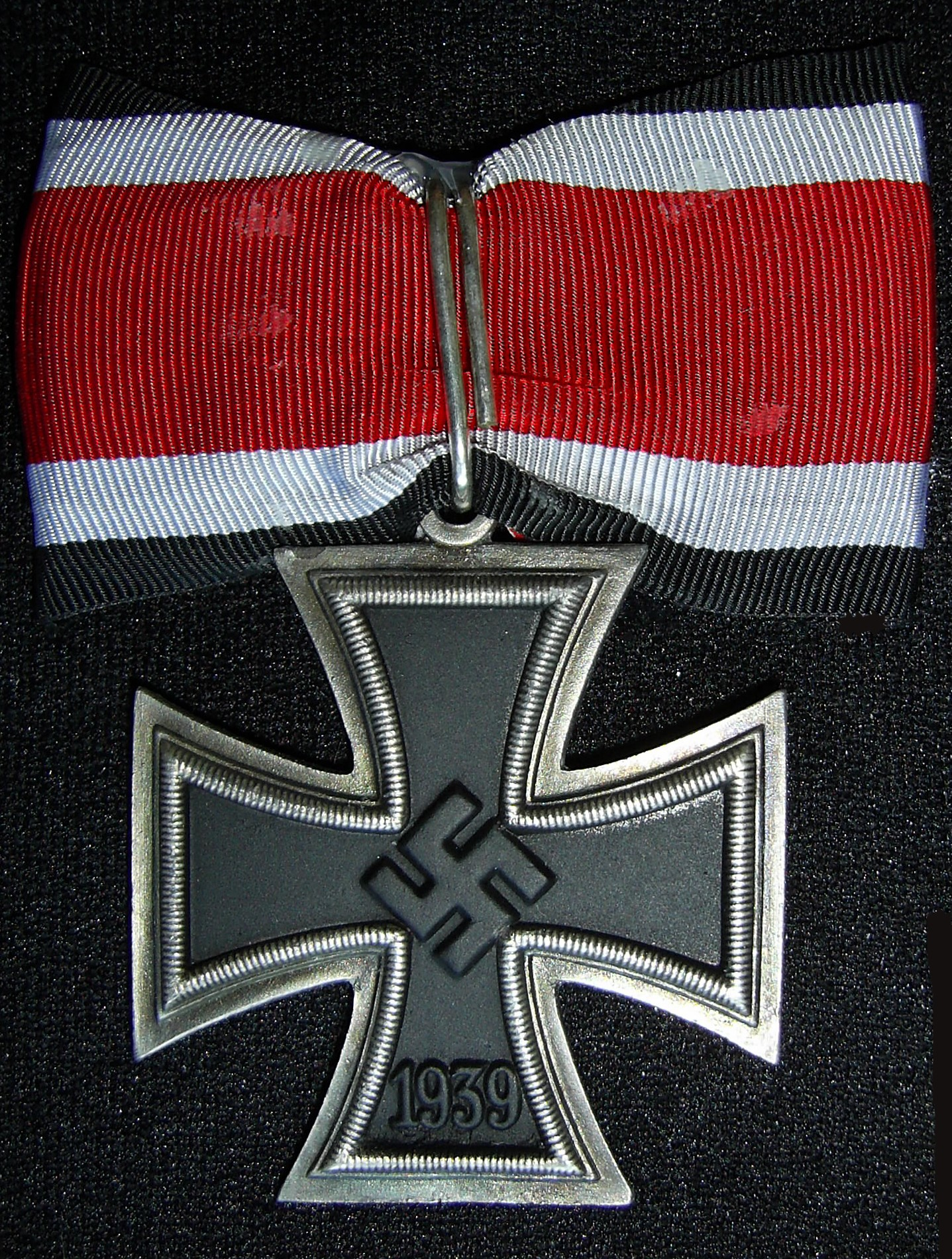 Knight's Cross of the Iron Cross (from September, 1st 1939).